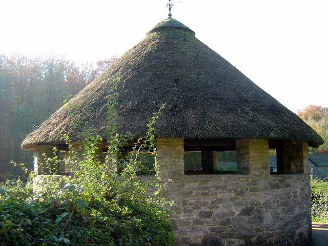 The cockpit at St Fagans. This is a C17 cockpit from Denbighshire, re-erected at the Welsh National History Museum. For an interior shot, see 659479. (Note magpie on roof, left)